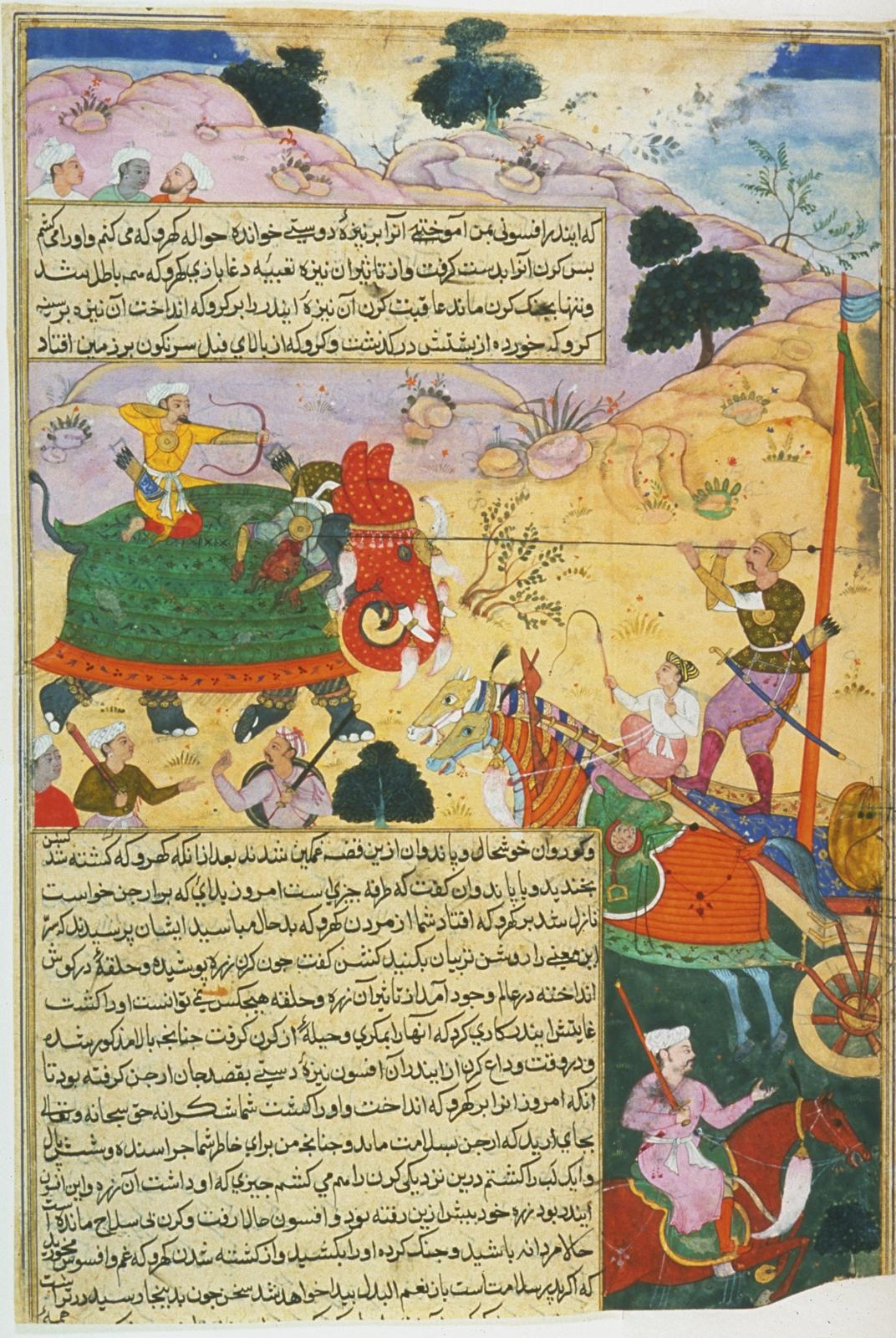 This painting shows an incident in the Mahabharata, a Hindu epic telling of the great battle between the Pandava brothers and their cousins the Kaurava brothers. Though the incident illustrated here was minor, it had profound repercussions for the outcome of the war. Karna uses a weapon given to him by Indra to kill the powerful Ghatotkacha, who falls from atop an elephant. Ghatotkacha’ s death is a blow to the Pandavas, but Indra’ s powerful weapon could only be used once; it was meant to destroy the hero Arjuna. Therefore, Arjuna lives— and he later kills Karna. The Razmnama is a Persian translation of the Mahabharata (the epic is widely revered in parts of Asia beyond its origins and was much translated). The important government official ‘ Abd al-Rahim (1556– 1626), known by the title Khan-i Khanan, commissioned this translation and manuscript as well as Persian versions of other Indian stories. Had we not known the manuscript from which this painting came, in examining its style we might take it to be decades earlier in date. It lacks the delicate refinement of the contemporaneous painting to the left, which was an imperial commission. Nevertheless, the range of colors is vibrant and the line animated.